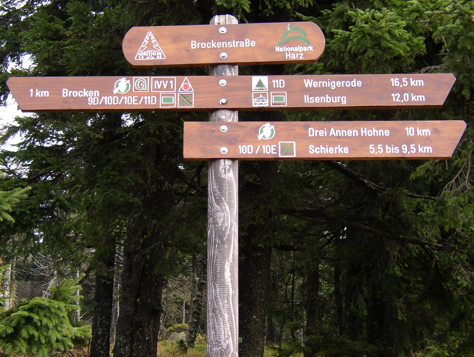 Fingerpost in the Harz National Park in Saxony-Anhalt, Germany